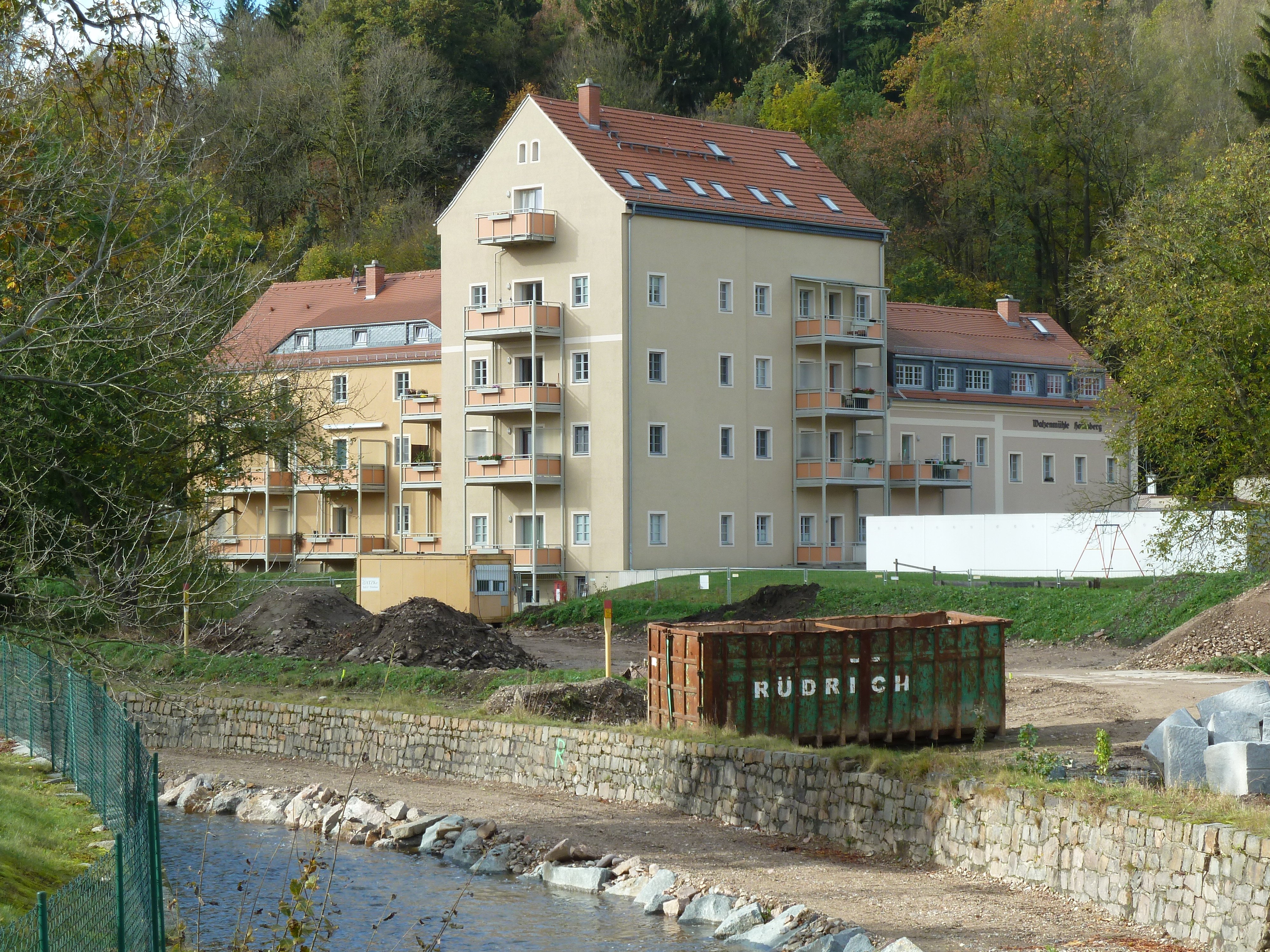 Watermill before 1462 until 1989; apartment-house since 2012.